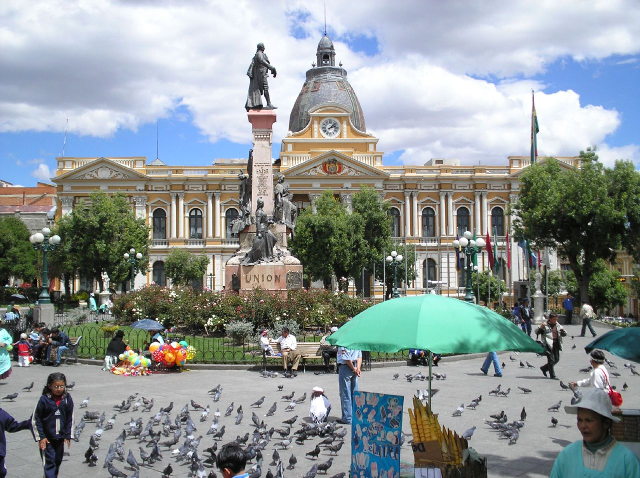 Plaza de Armas de La Paz, Bolivia. Palacio del Gobierno al fondo. Location: La Paz (Bolivia).